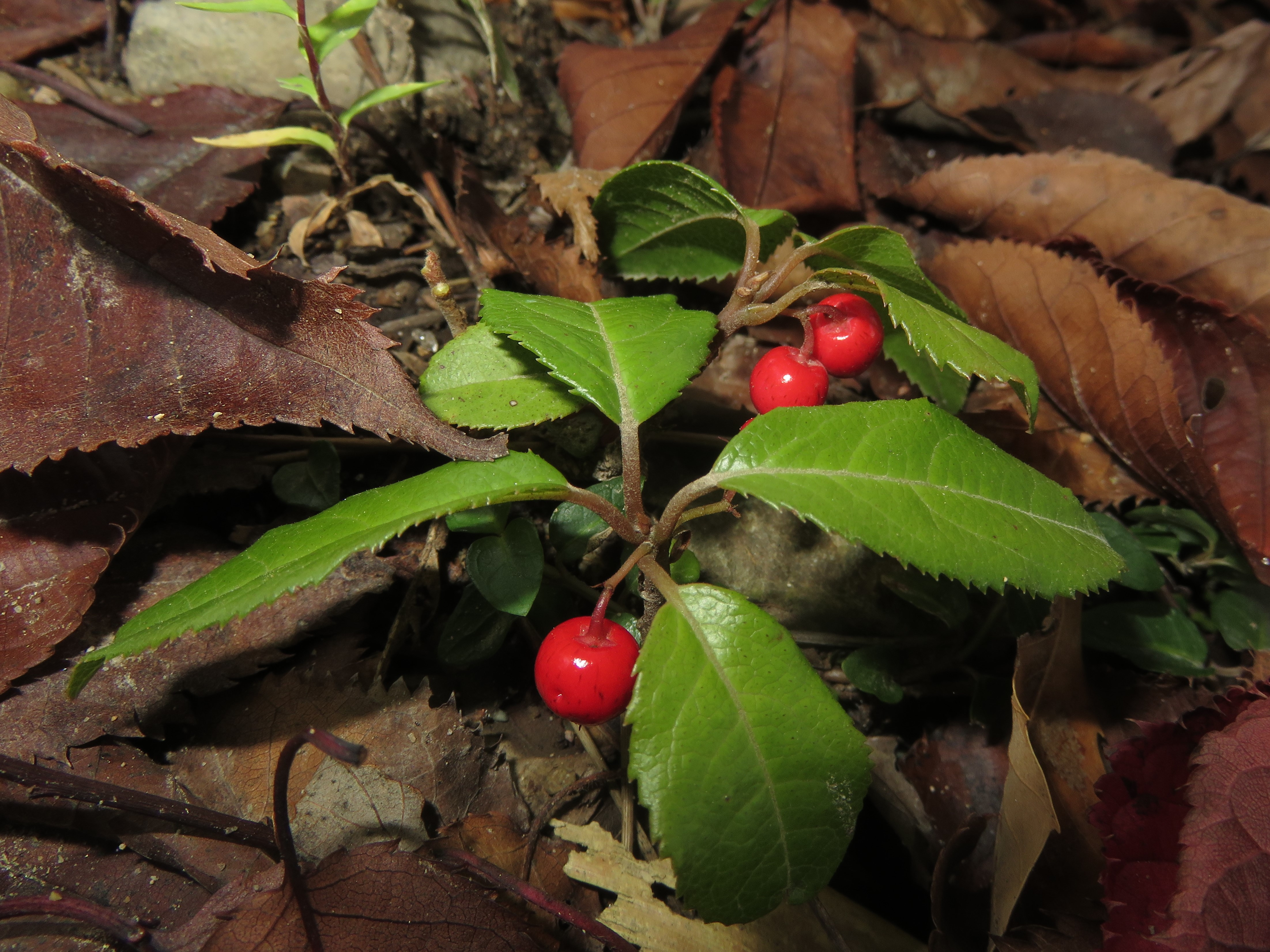 Ardisia japonica, Aizu area, Fukushima pref., Japan